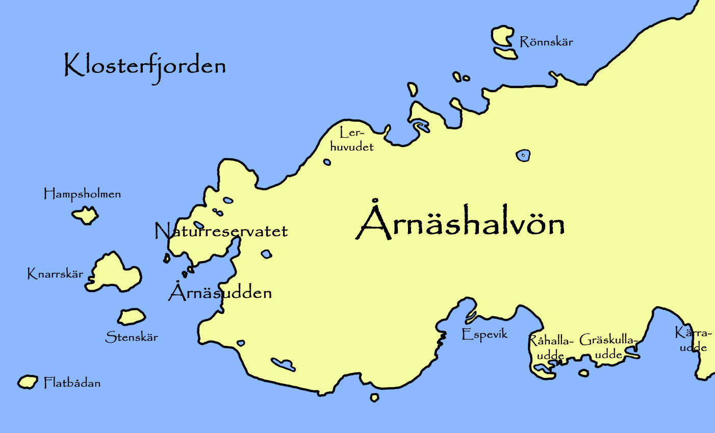 Map of Årnäshalvön, a peninsula in Halland, Sweden.